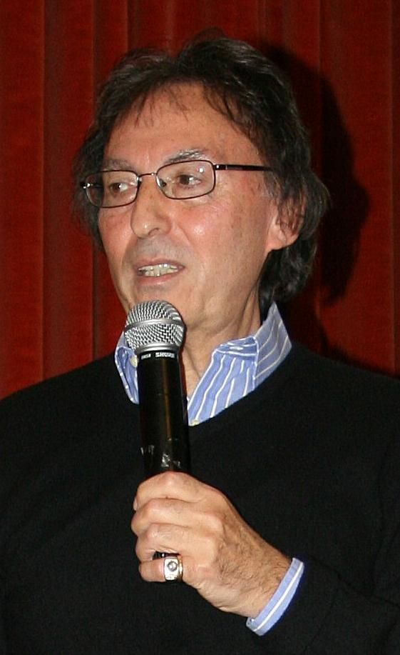 Don Black shows his Oscar for Born Free at Nightingale House, London, Feb 2010